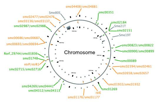 TA system map of Sinorhizobium meliloti strain 1021